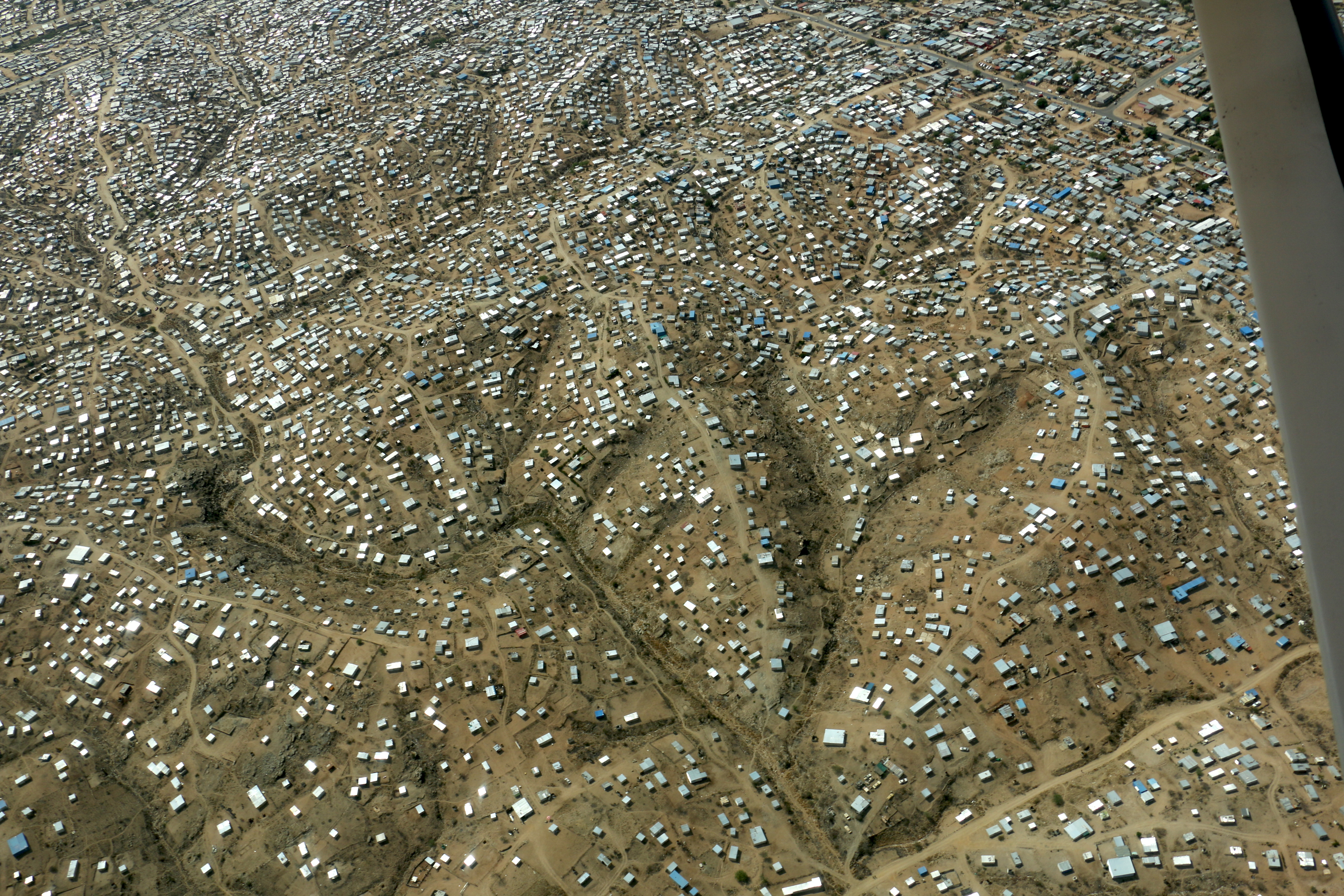 Agglomeration near Goreangab Dam